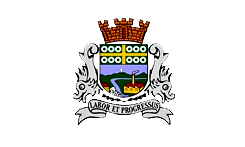 Flag of Pedreira city (São Paulo, Brazil)